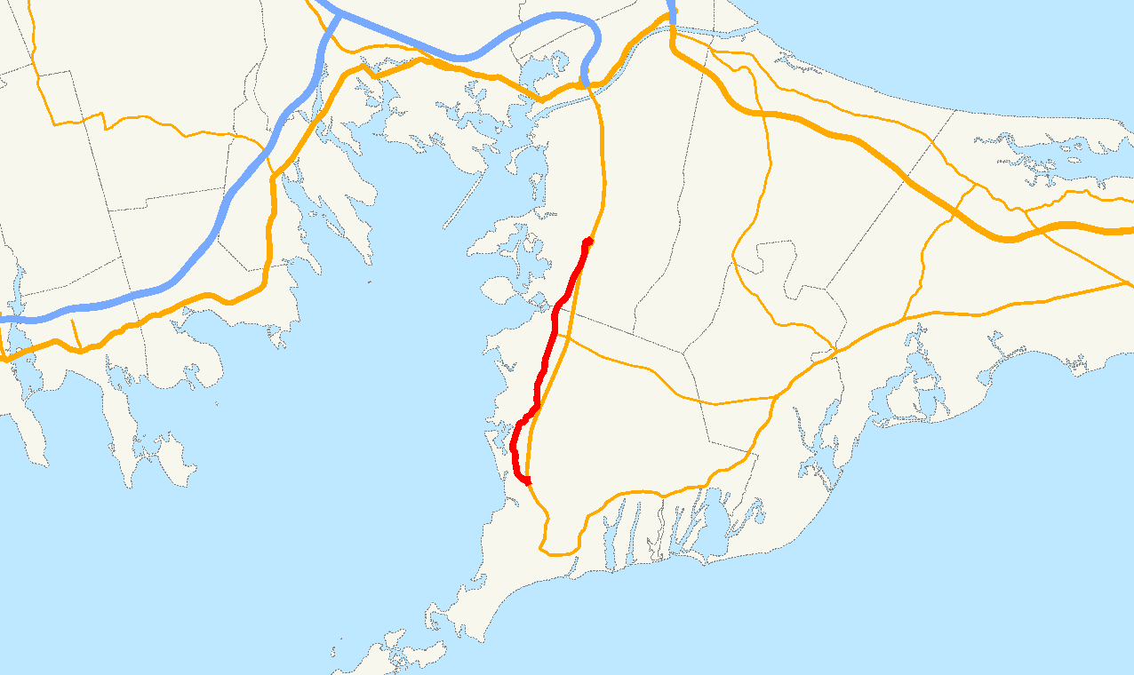 Map with Massachusetts Route 28A highlighted